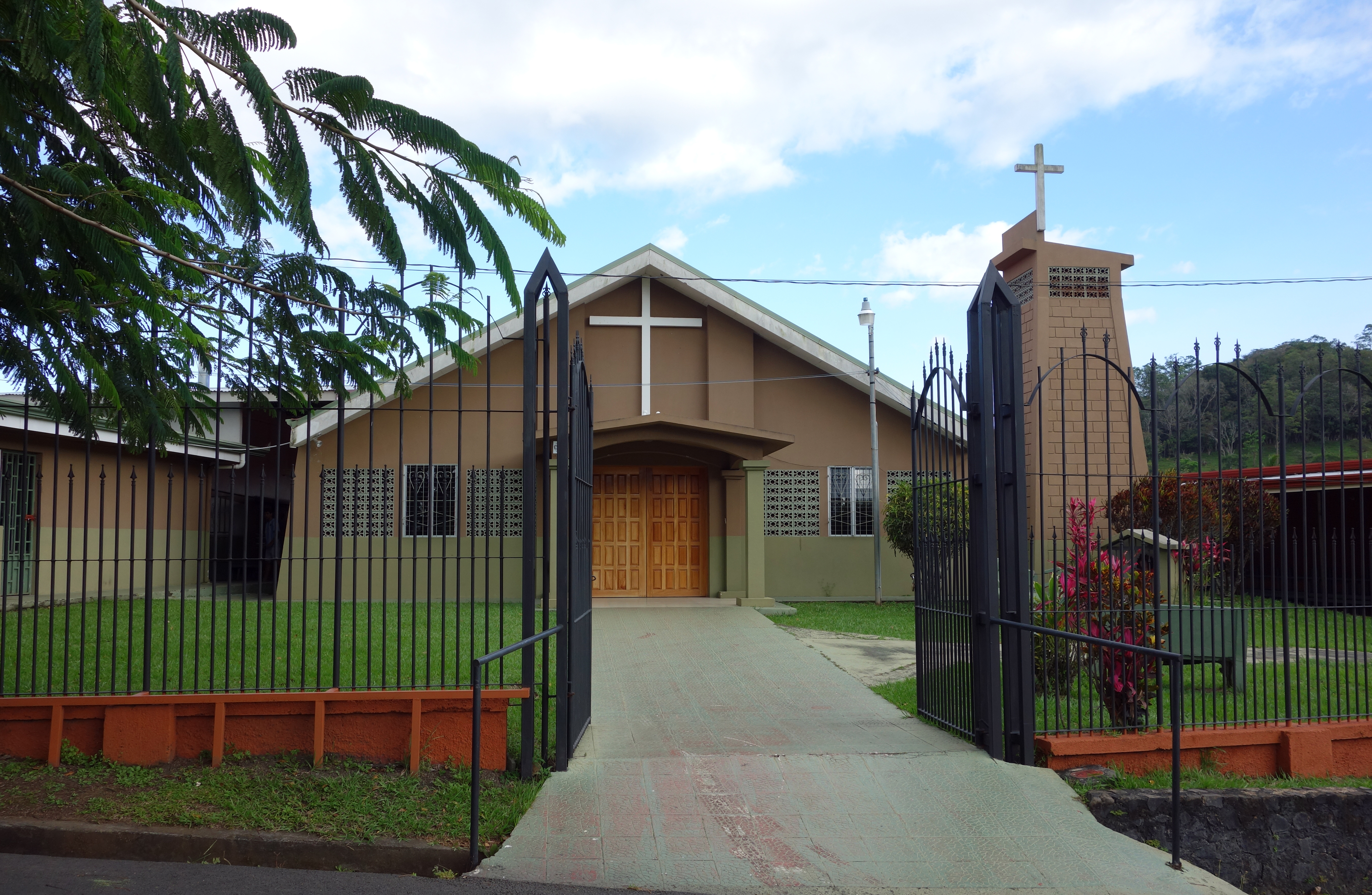 The church of Barrio Jesús de Atenas in Costa Rica